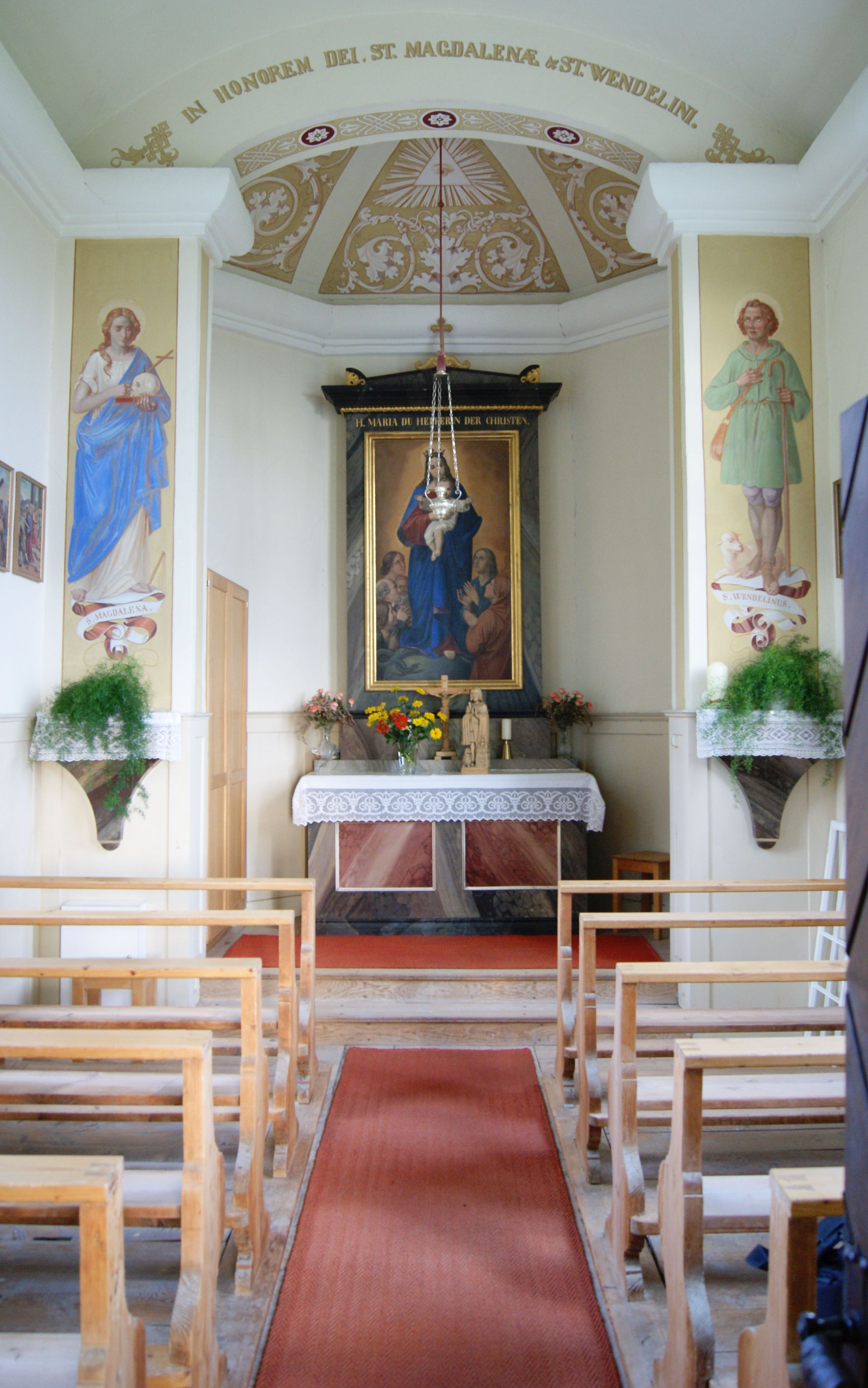 Chapel Mary Magdalene and Wendelin in "Ammenegg" in Dornbirn, Vorarlberg, Austria. View from the entrance to the altar.